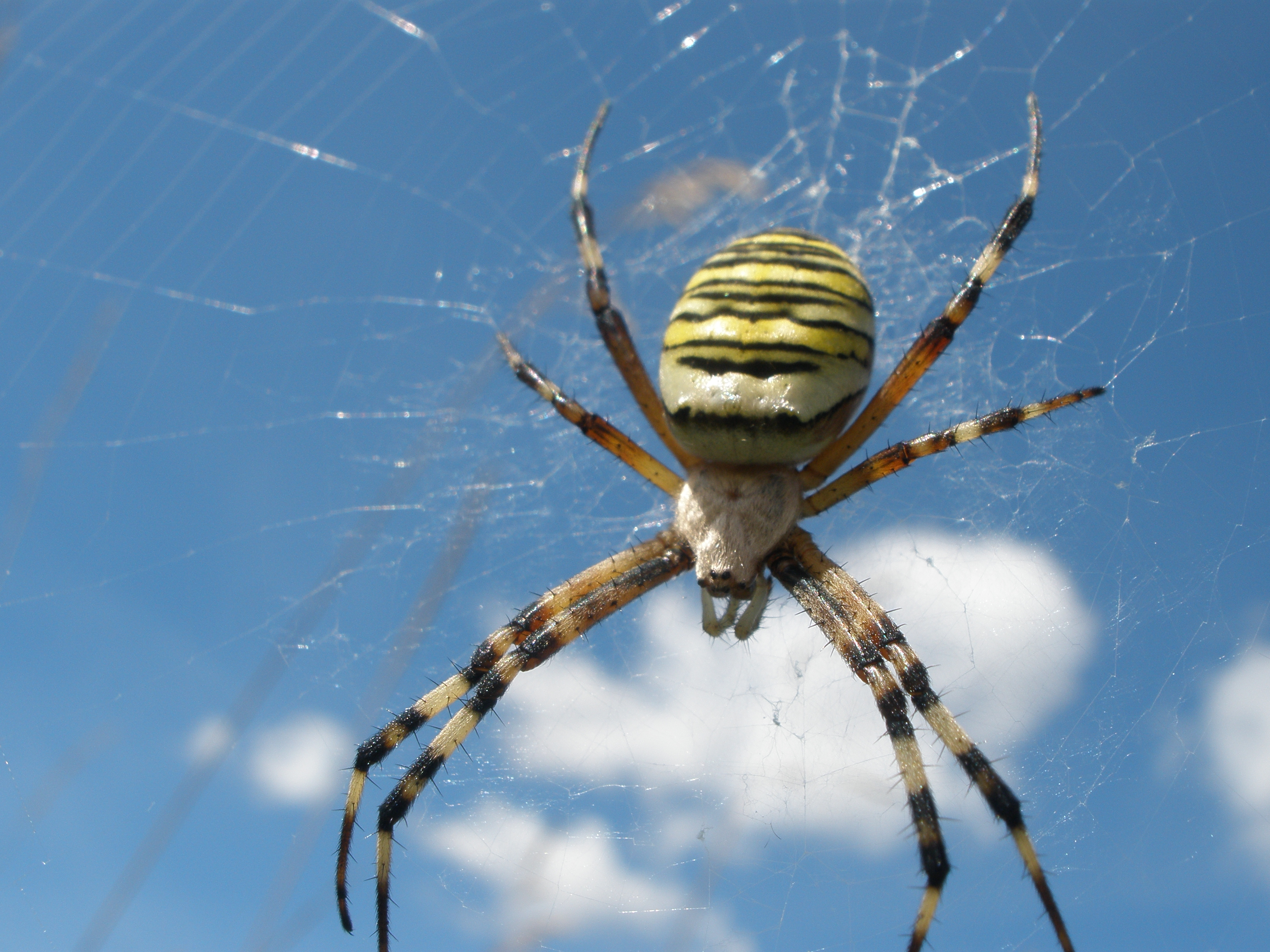 Argiope bruennichi